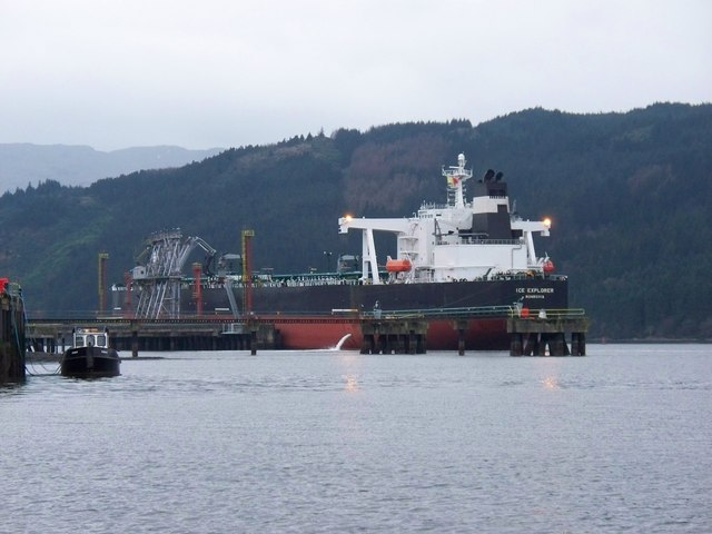 'Ice Explorer' Oil Tanker at Finnart Ocean Terminal Built in Japan, she has a dead weight of 146,427 tonnes and is 247 metres long.